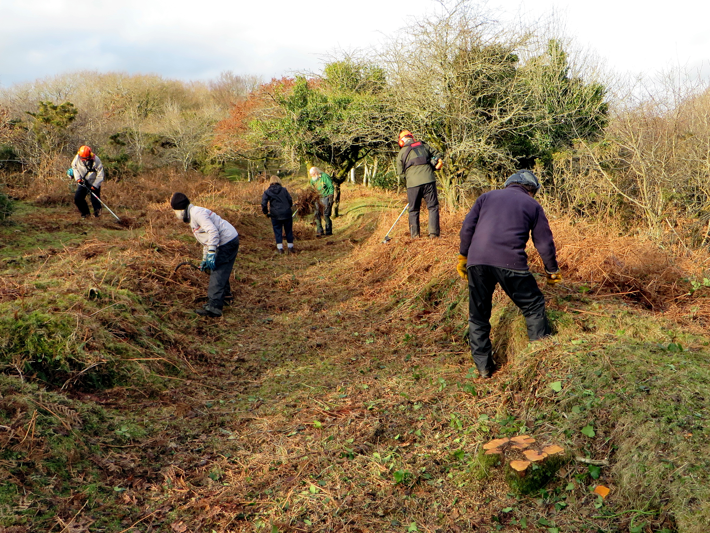 January 2015 cutting scrub on Devonport Leat